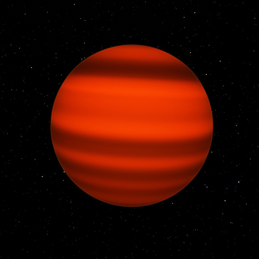 WISEA 1101+5400 is the first brown dwarf discovered by volunteers of the project Backyard Worlds. This image was created by an amateur artist with SpaceEngine PRO. The image was cropped for display purposes.